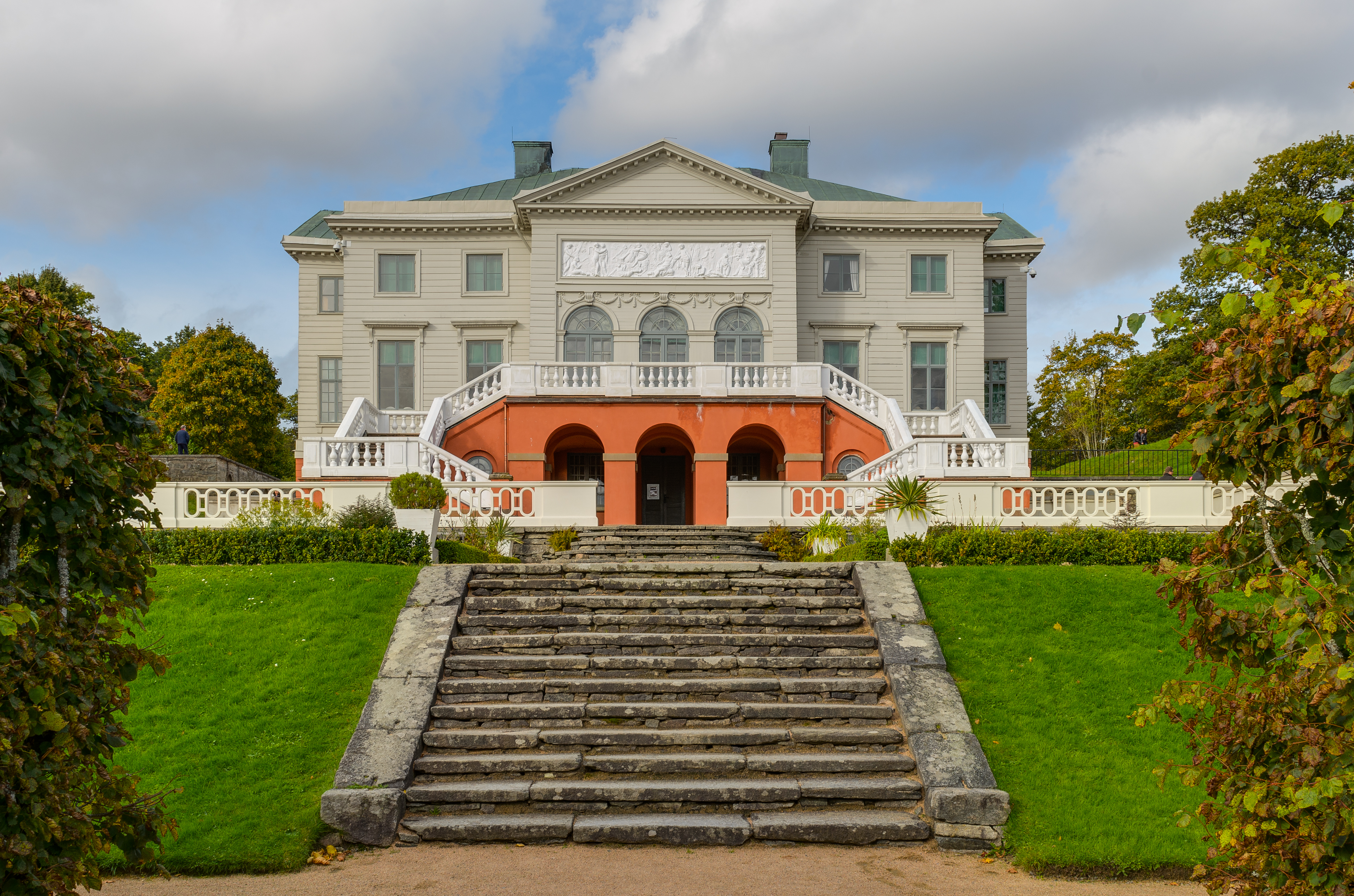 Main building at Gunnebo slott seen from the Southern formal garden. Gunnebo slott (Gunnebo House) is a château located outside Gothenburg, in Mölndal Municipality, Sweden. The estate consists of a main building from the end of the 18th century, built by John Hall, and drawn by city architect Carl Wilhelm Carlberg in a Neoclassical architecture. Gunnebo has one of Sweden's finest and best preserved baroque